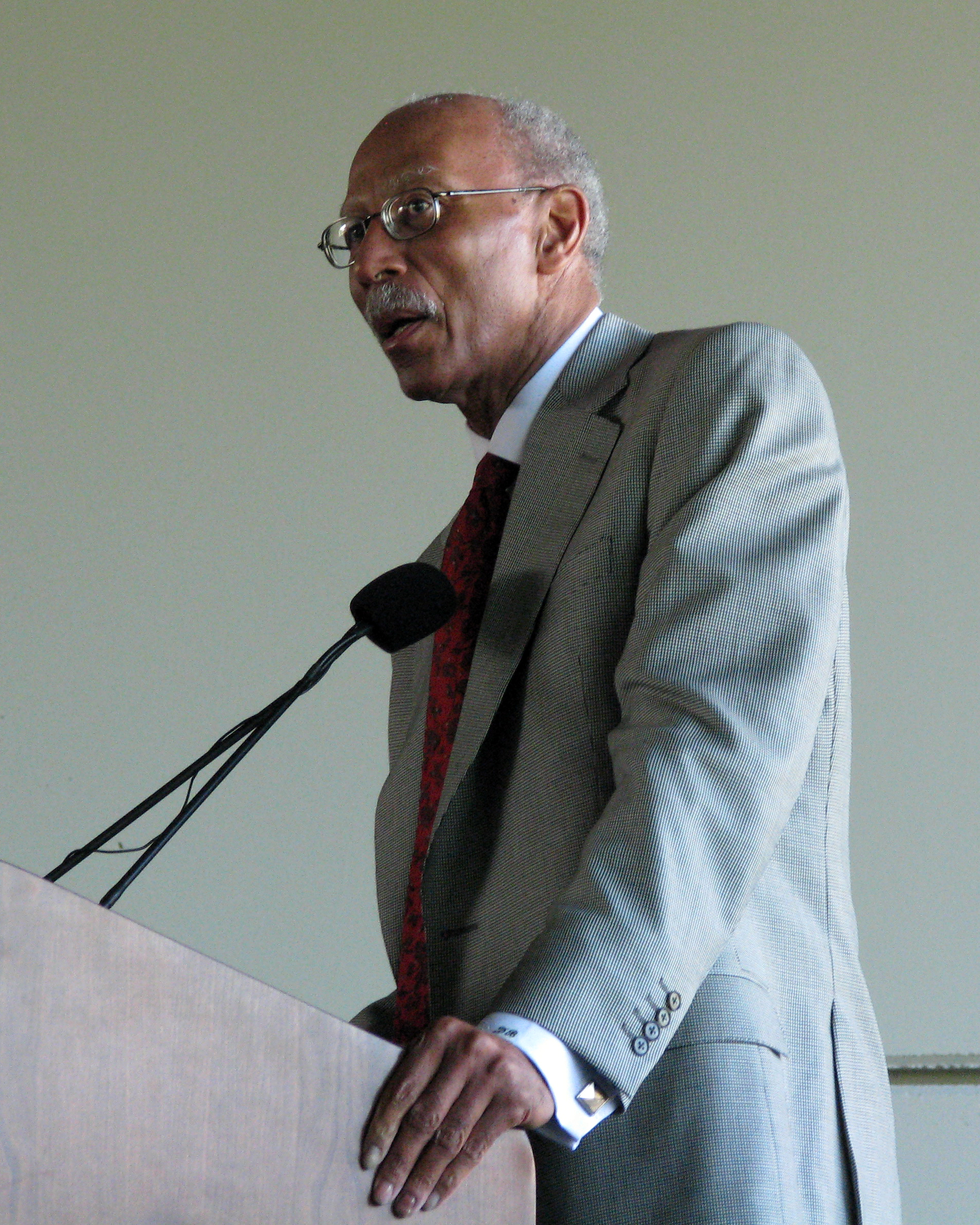 New Detroit mayor Dave Bing speaks at the Dequindre Cut's grand opening.